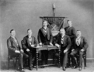 Student Senate of Groningen Student Corps Vinicat atque Polit 1887